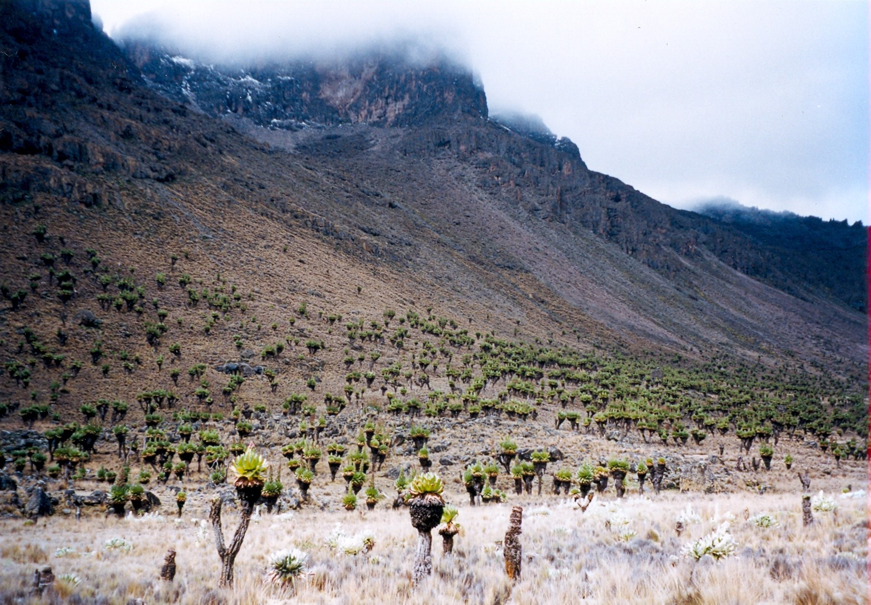 Giant groundsel flowers (Senecio keniodendron) in Mackinder Valley, Mount Kenya, Kenya. The flat foreground is due to valley train deposits from sediment rich glacial rivers filling up the valley.